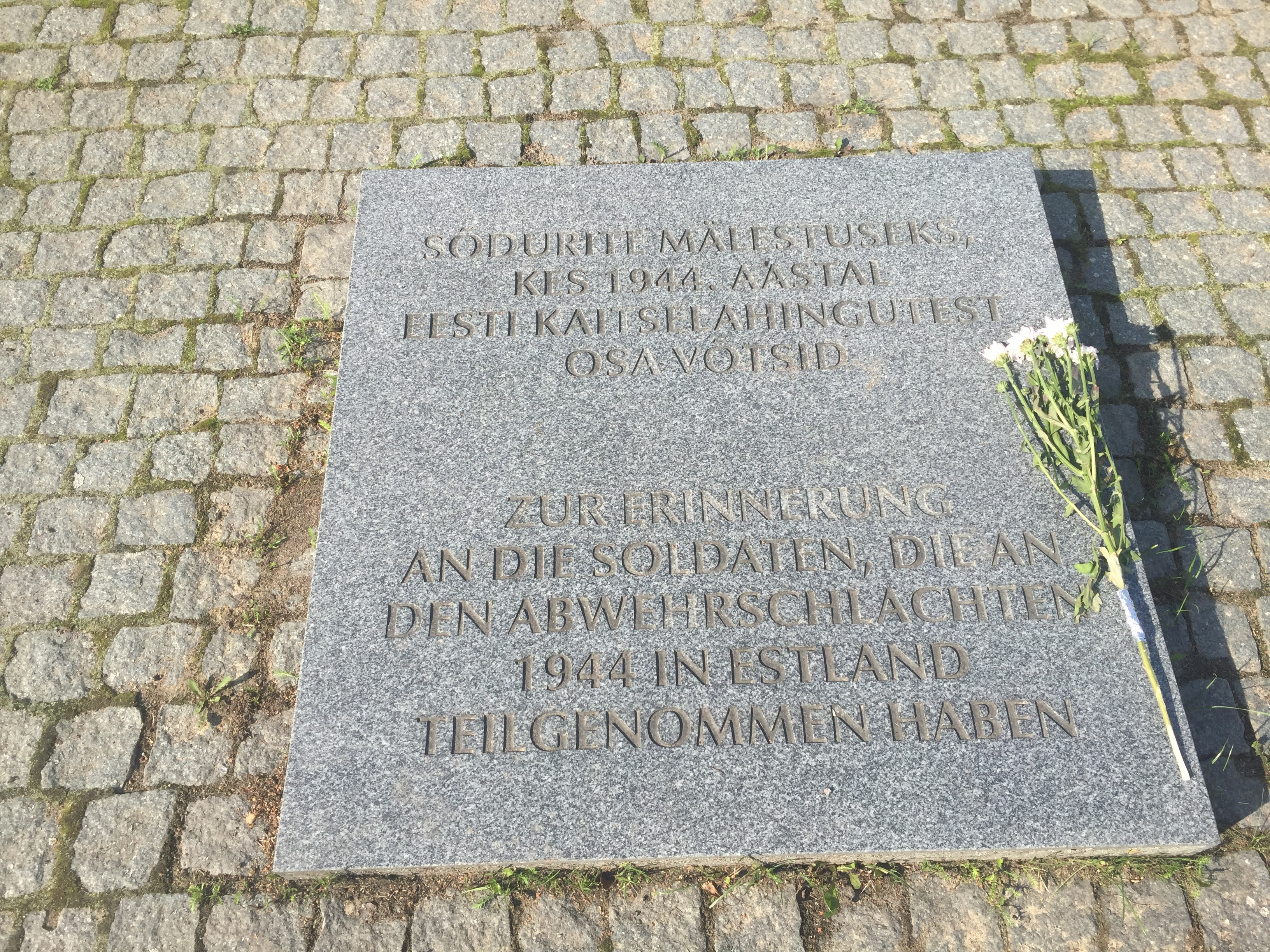 Memorial for the German-Estonian "Abwehrschlachten" pro Nazi-Germany against the Red Army